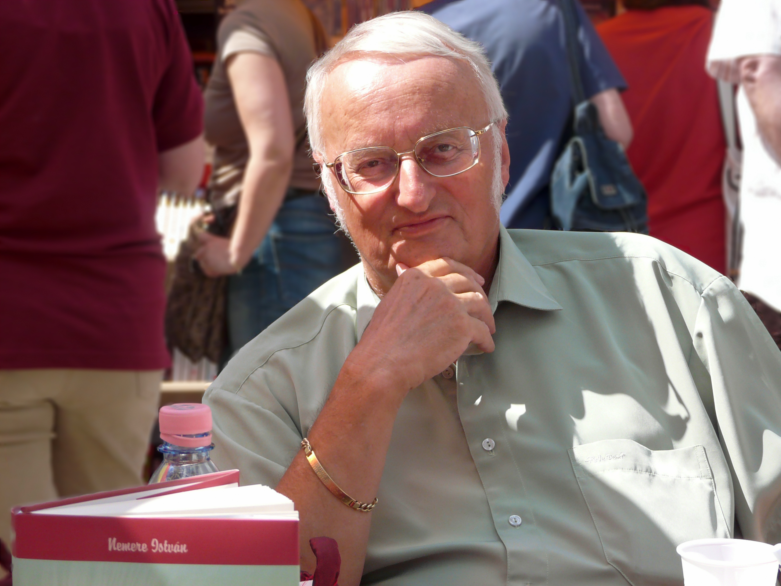 István Nemere, Hungarian writer, Juin 2010.